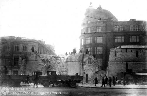 Destruction of the Ilyinsky gates, 1933